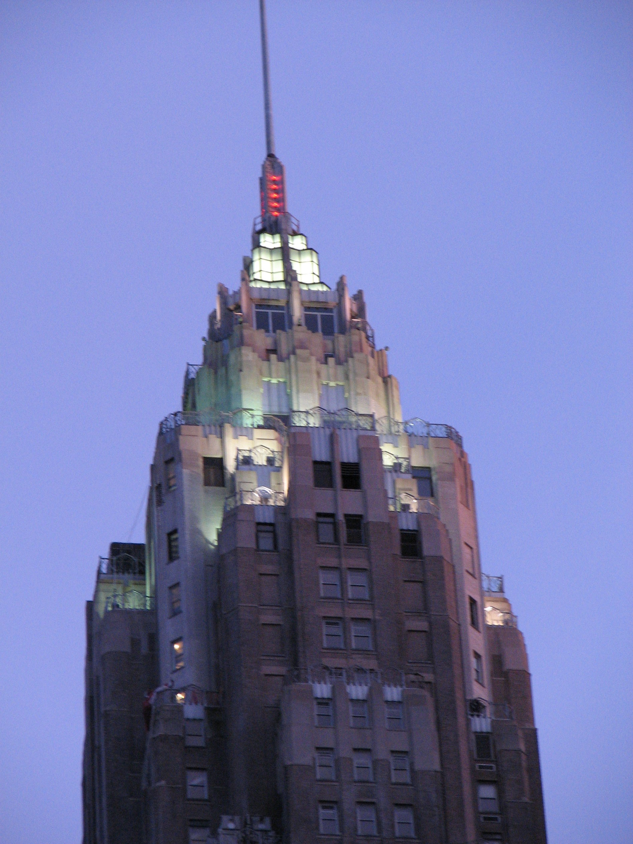 The top portion of the American International Group headquarters building in New York City at dusk; see a similar image of the building sunlit.